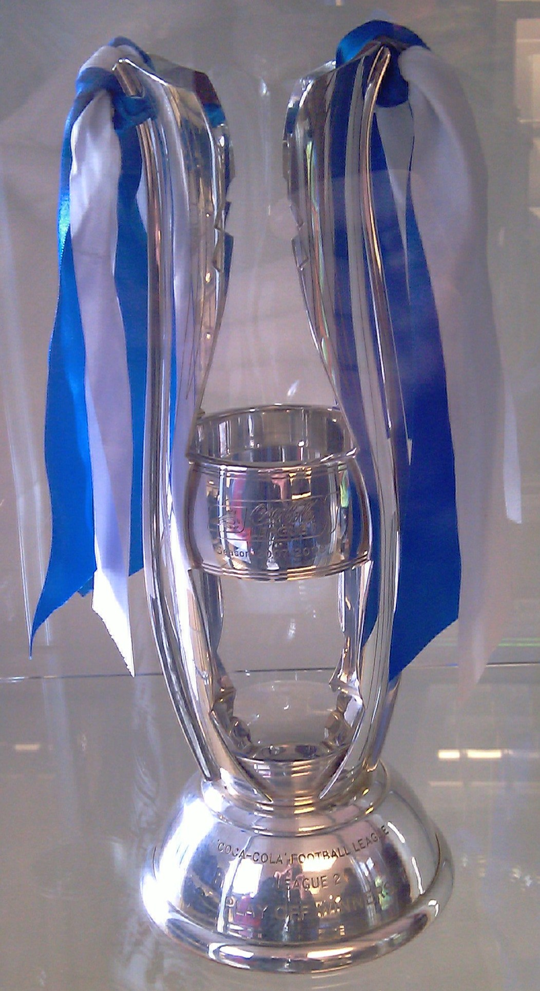 League Two Playoff Trophy in 2011